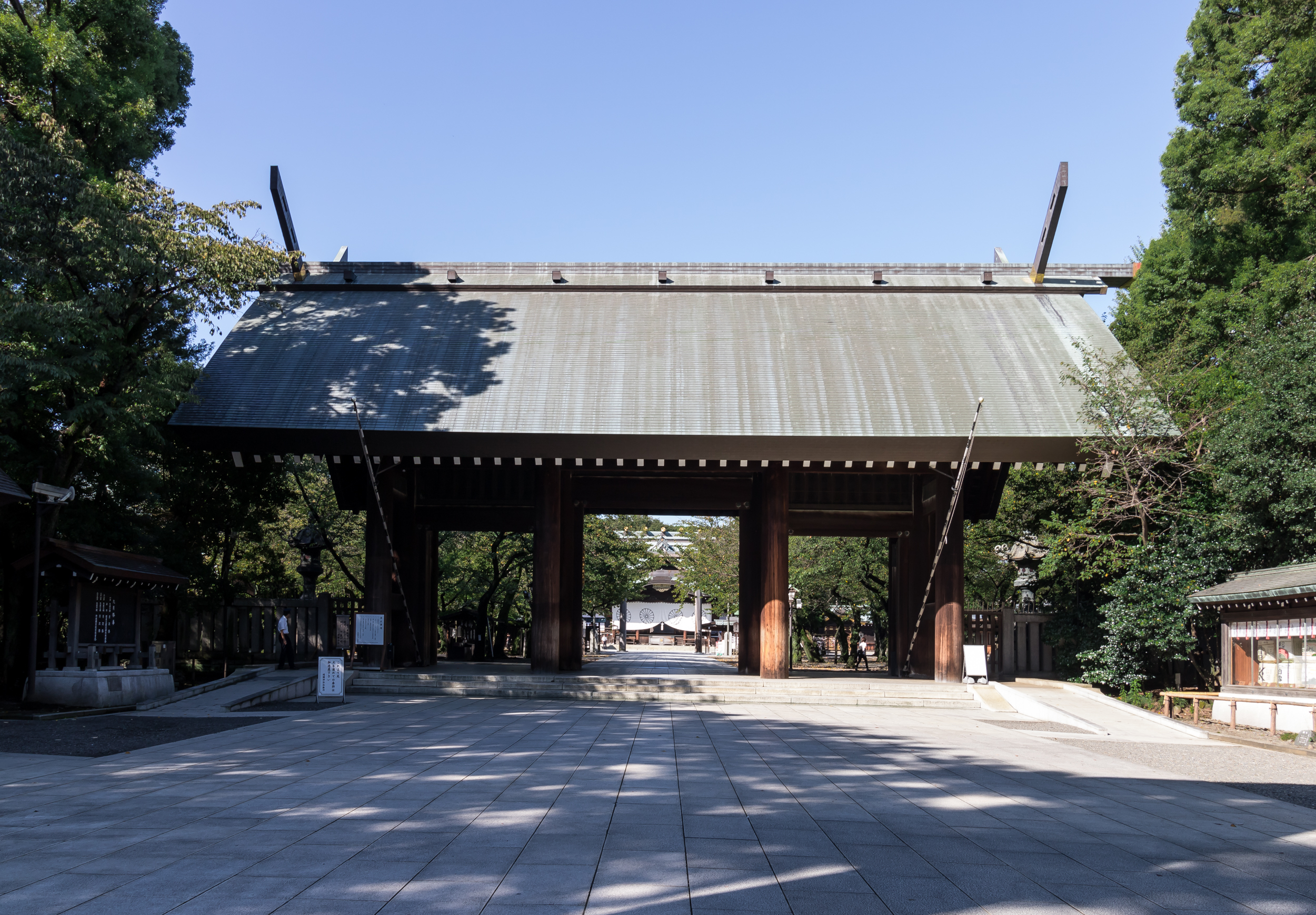 靖国神社。神門。